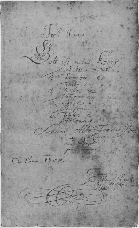 This is the autograph title page of Bach's Cantata No. 71, "Gott ist mein König", composed in 1708 in Mühlhausen